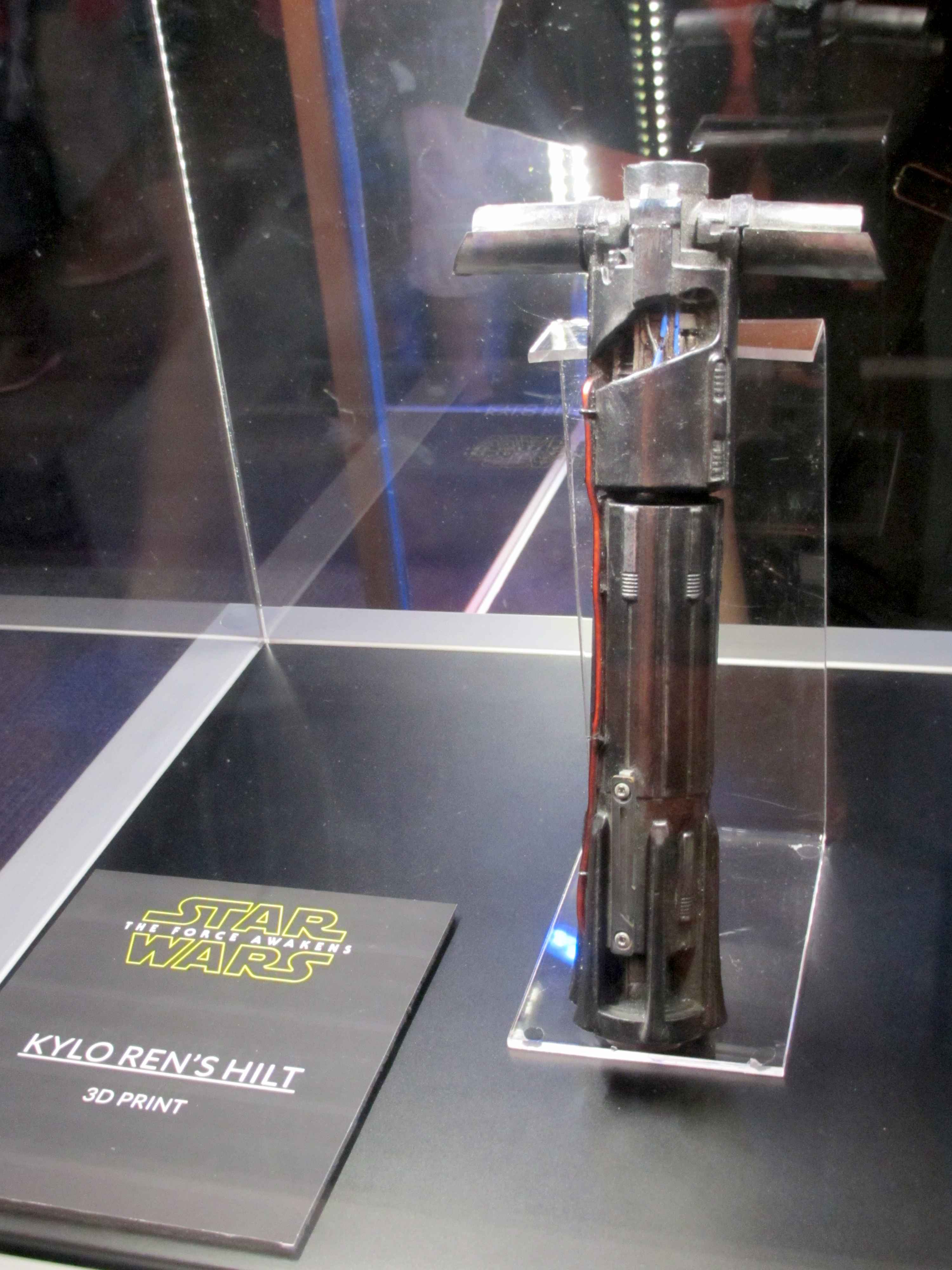 Celebration Anaheim - The Force Awakens Exhibit Star Wars Celebration in Anaheim, April 2015.